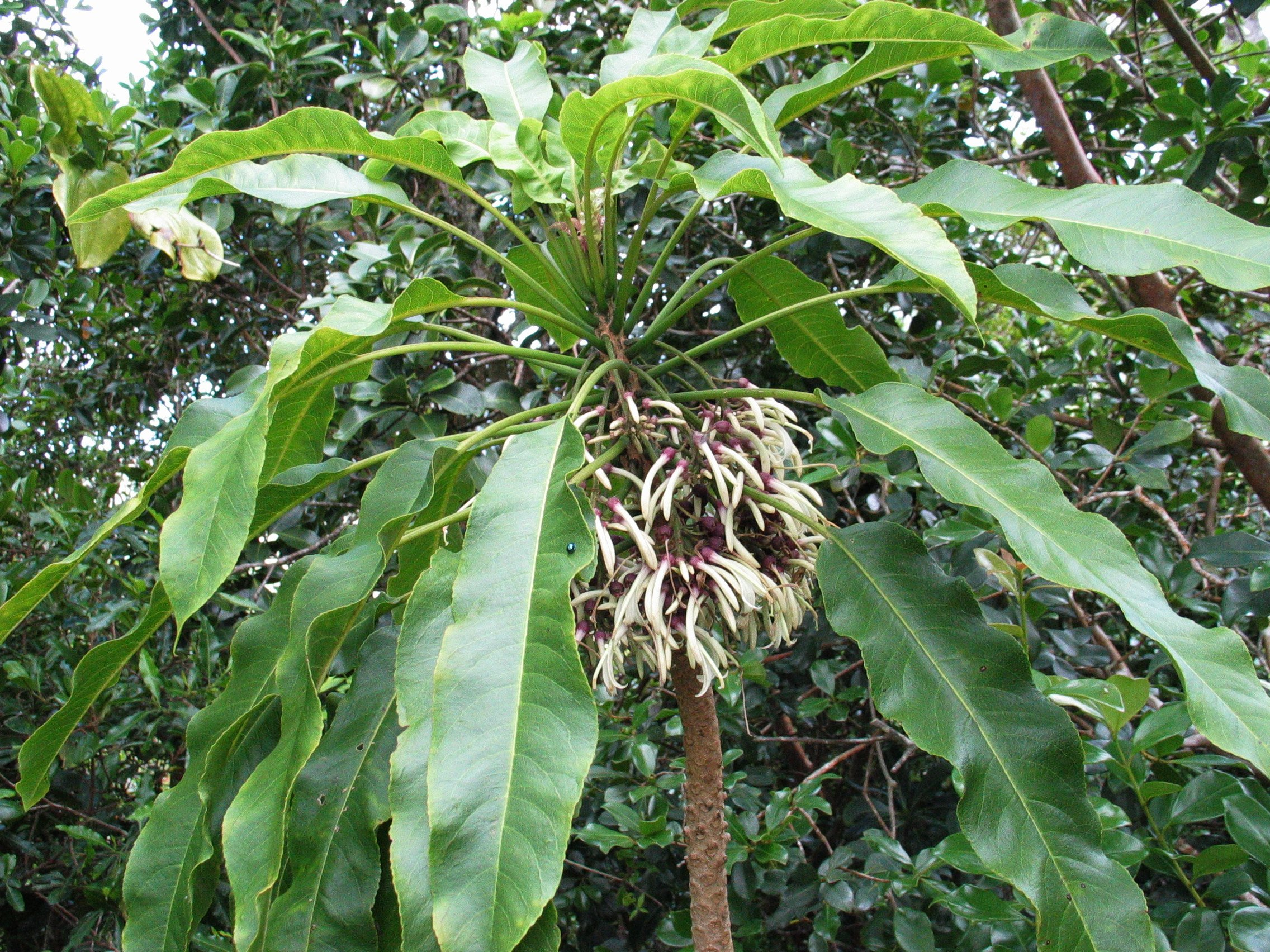 Hāhā Campanulaceae Endemic to the Hawaiian Islands Uncommon to rare Waiʻanae-Kai Trail, Waiʻanae Mountains, Oʻahu Leaves of this species (Cyanea angustifolia) as well as ʻakuʻaku (Cyanea platyphylla), now endangered, were wrapped in ti (kī) leaves, cooked in an ʻimu and eaten in times of food scarcity by early Hawaiians.